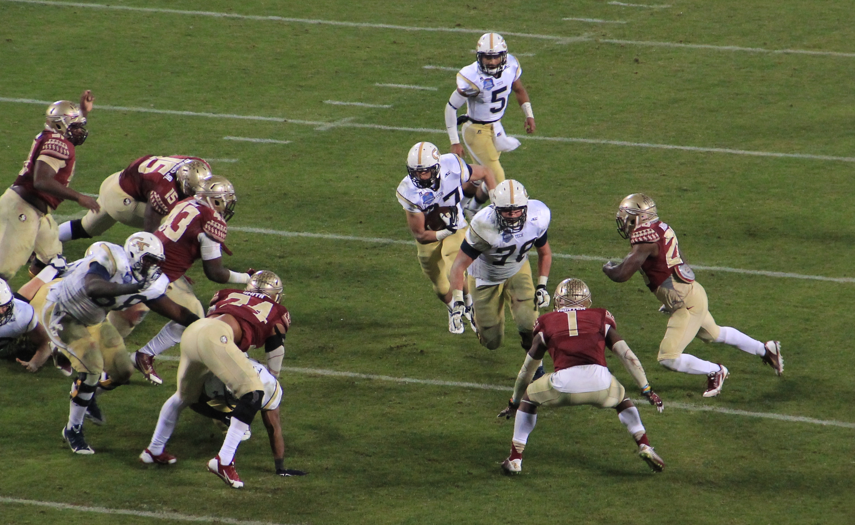 Zach Laskey rushing with the ball at the 2014 ACC Championship Game